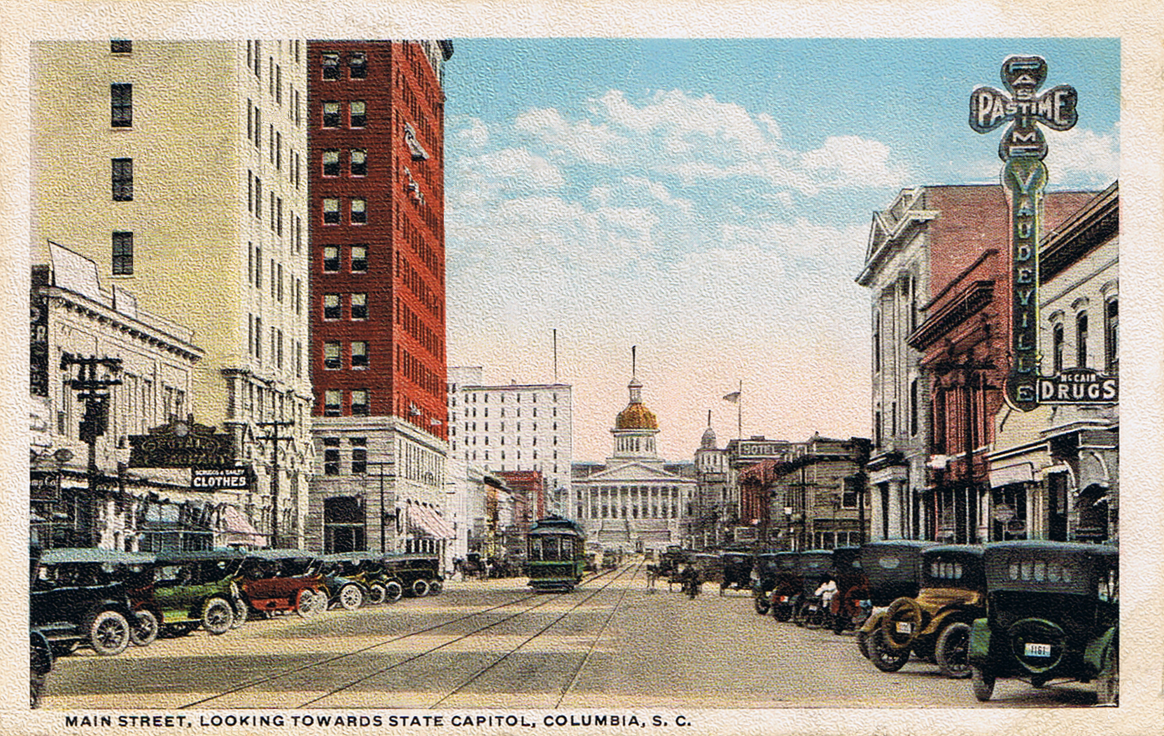 Matte color postcard of Main Street, looking towards the State Capitol, Columbia, South Carolina. Published by Southern Post Card Co., Asheville, N.C. Made in U.S.A. The sign for "Pastime Vaudeville" is shaped like a four-leaf clover.